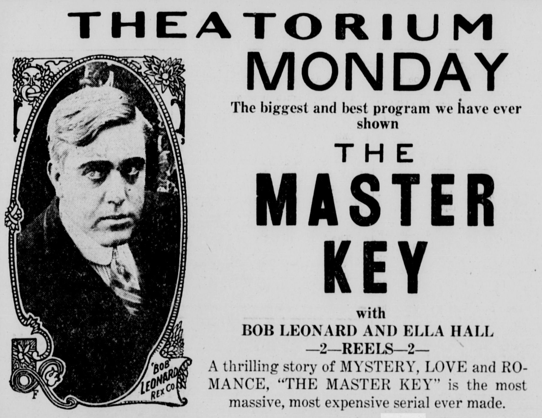 The Master Key is a 1914 American film serial directed by Robert Z. Leonard. This is a newspaper advert.